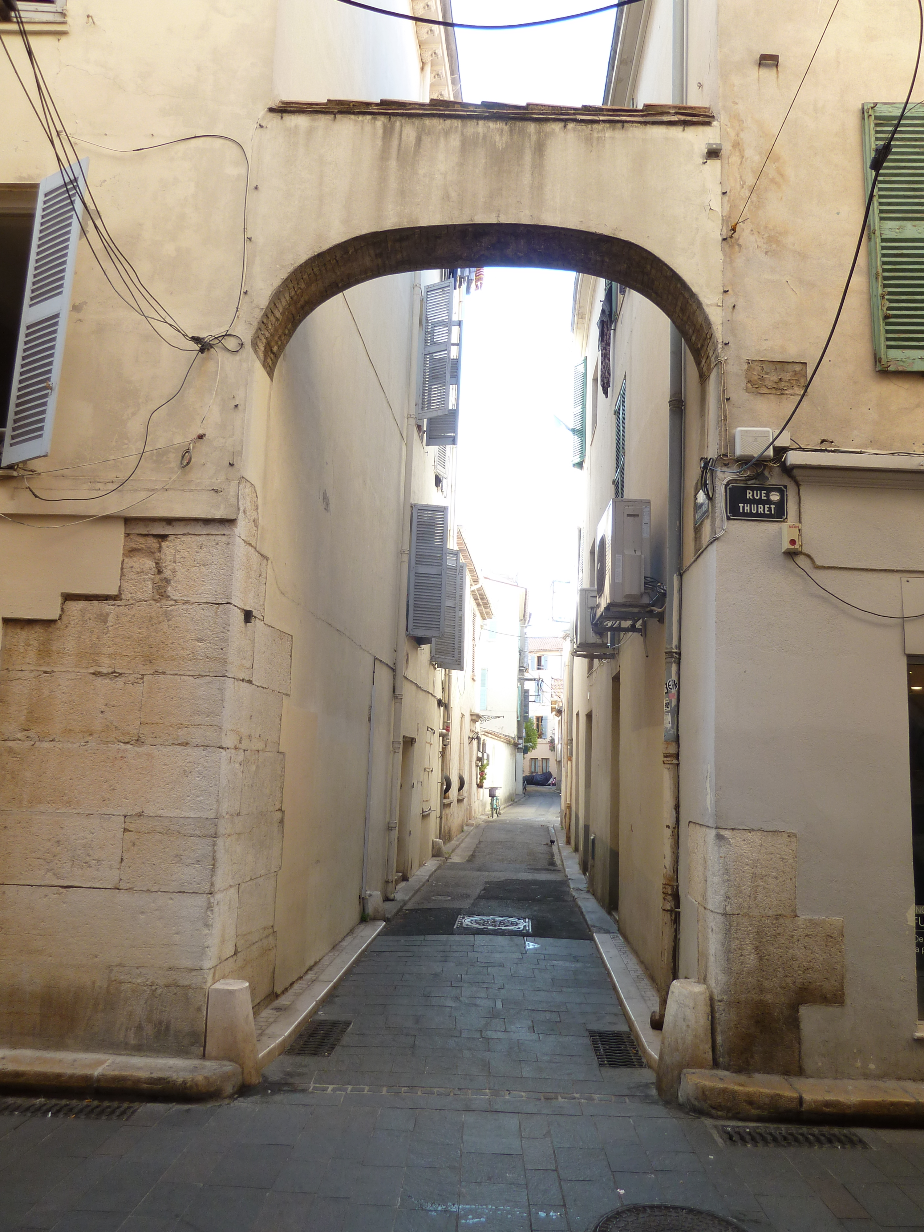 antibes